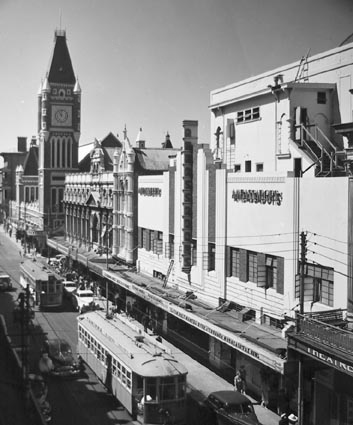 Photograph of Hay Street, Perth, Western Australia.